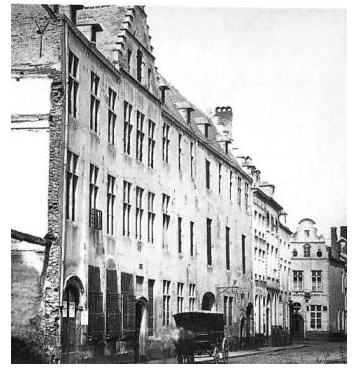 Old Mons Pietatis in Brussels, before its demolition